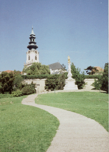 Nitra, view from lower town, St. Emmeram cathedral in background